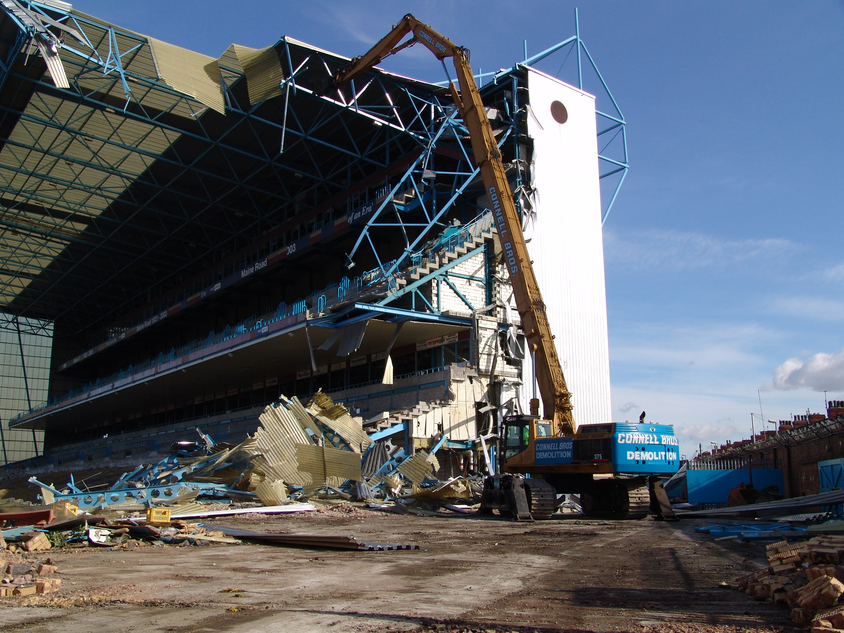 Demolition of stand with Specialist high reach excavator